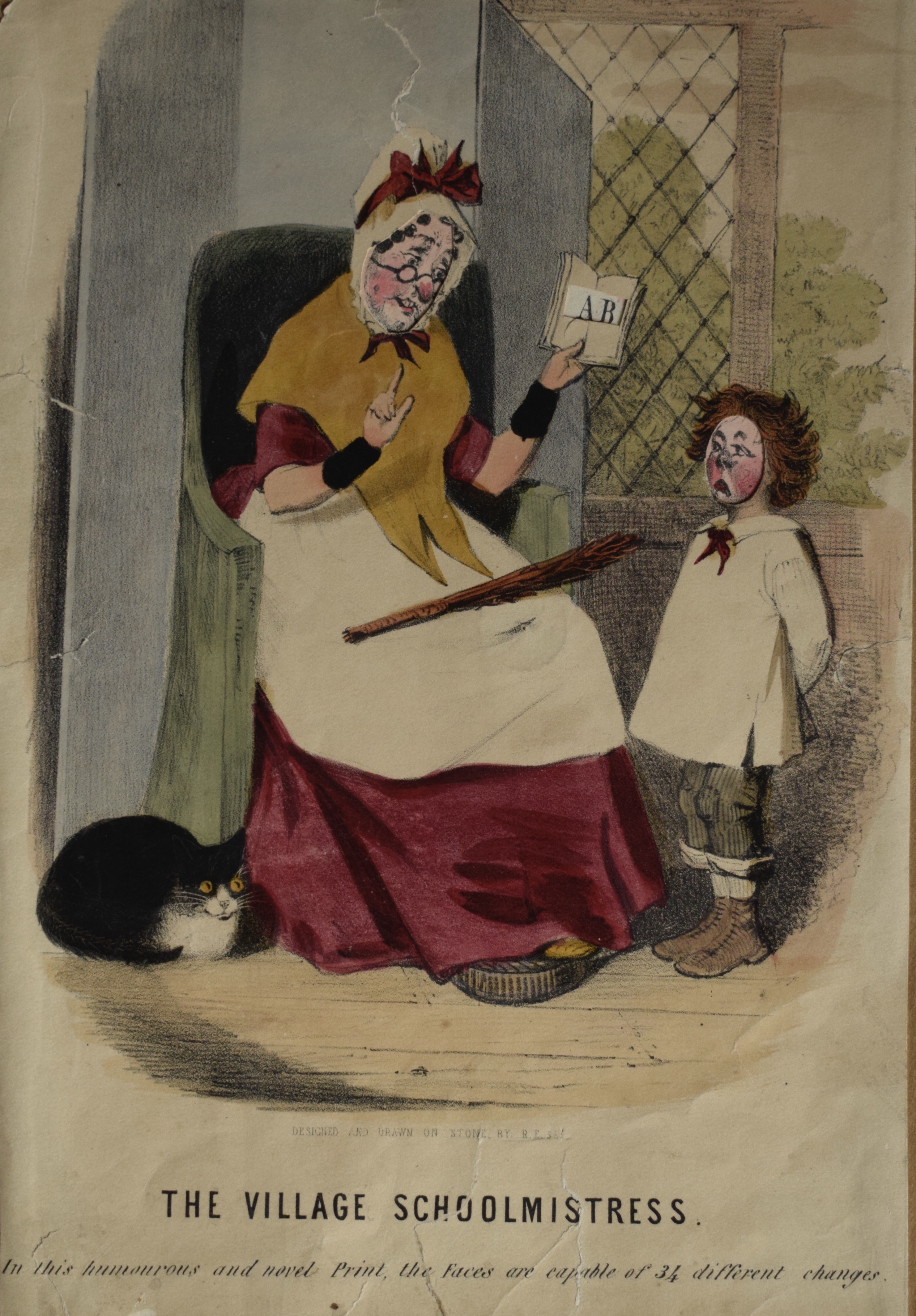 A toy print. Hand coloured lithograph. Contains the wording 'DESIGNED AND DRAWN ON STONE, BY: R. E. SLY' and 'LONDON PUBLISHED, BY C. EDMONDS, 154 STRAND NEAR SOMERSET HOUSE'. For more detail see Mathew Crowther, 'A New & Amusing Mechanical Print' (21 September 2016)